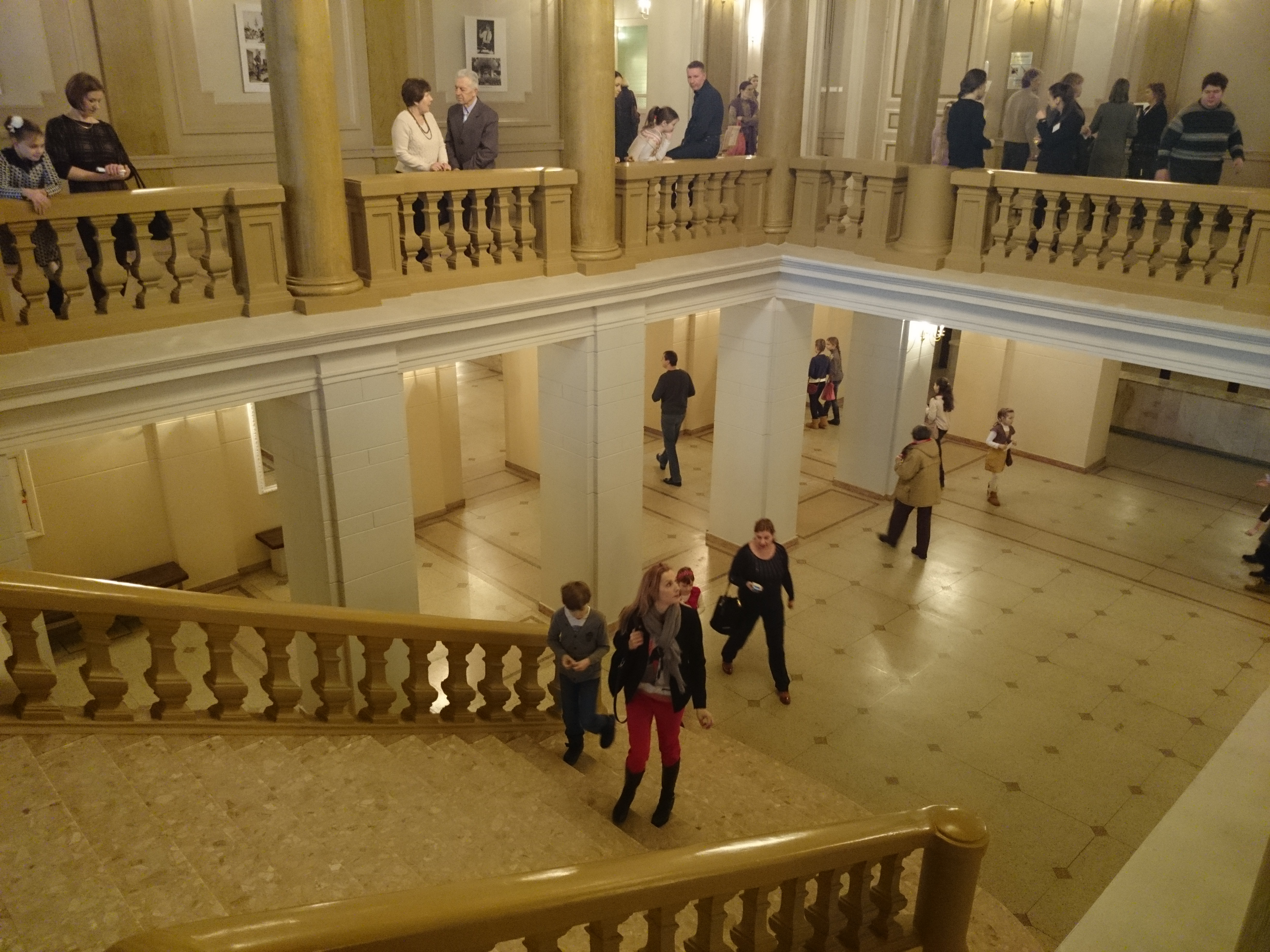 Lithuanian National Philharmony